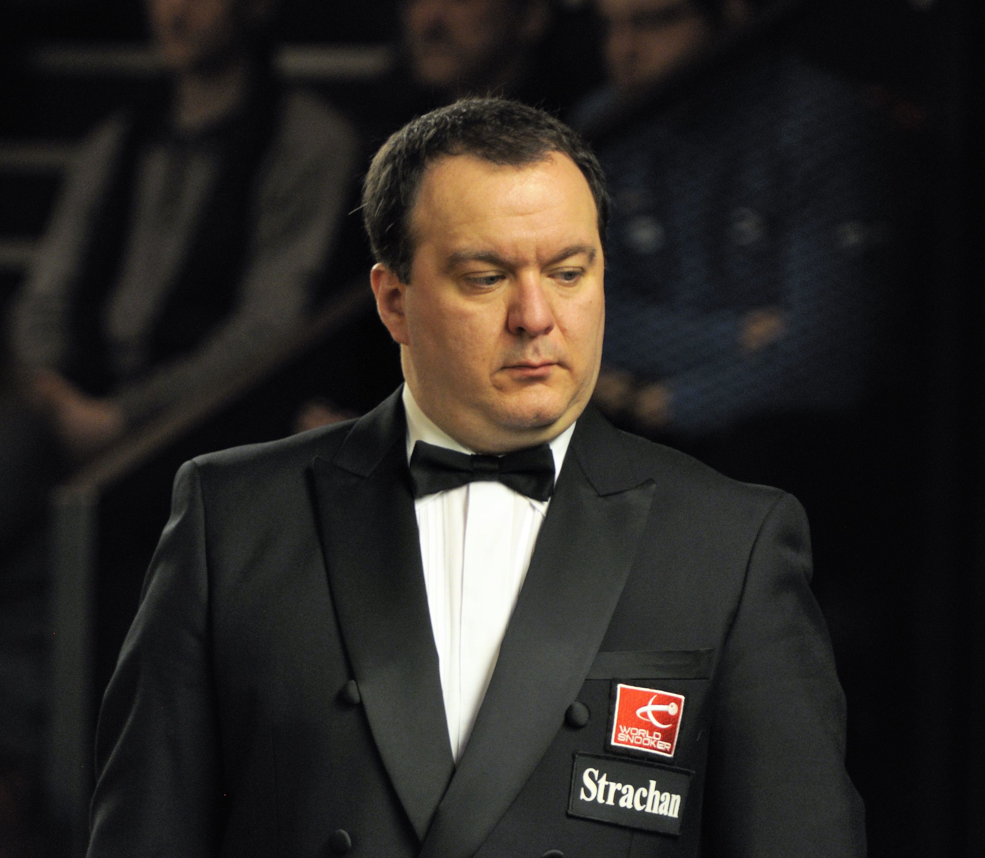 Picture taken in Berlin during the Snooker German Masters in 2014. Greg Coniglio.